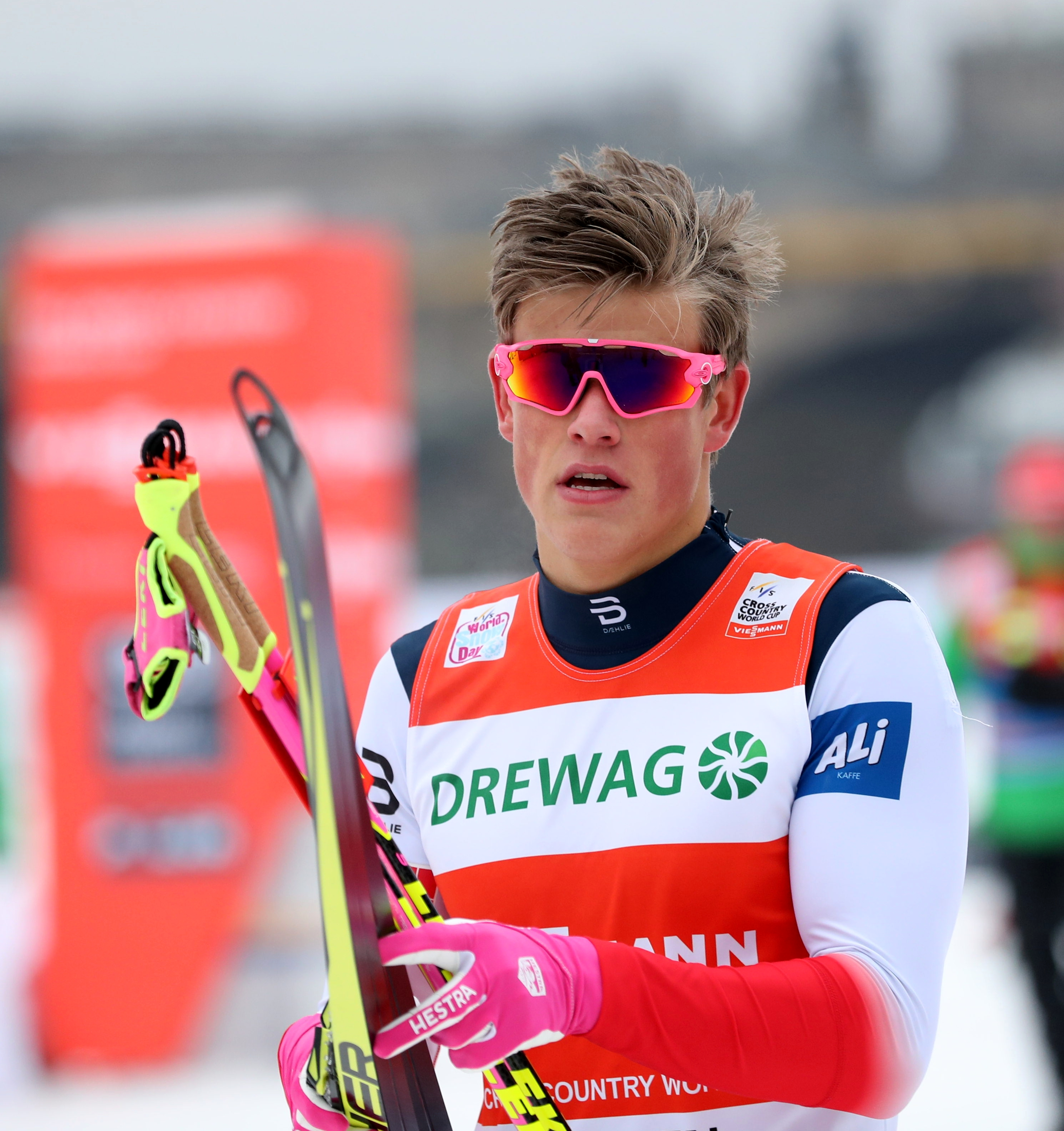 Mens Final at the FIS Cross-Country World Cup Dresden 2018: Johannes Høsflot Klæbo